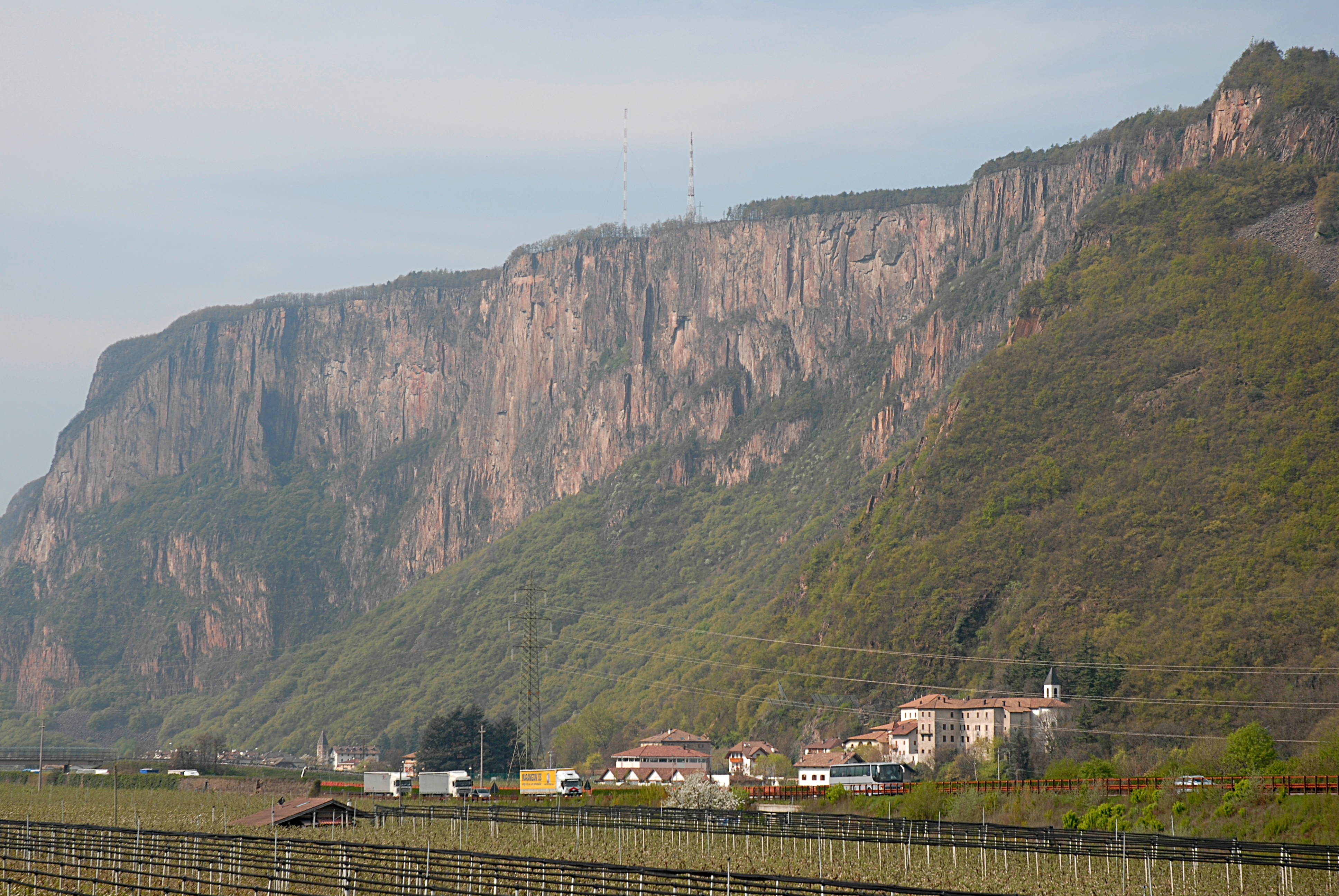 The Pfattner walls near Pfatten, south of Bolzano, South Tyrol. Geologicaly this are ignimbrits of the Auer-Formation, which are volcanic rocks of the South Tyrol volcanic platform